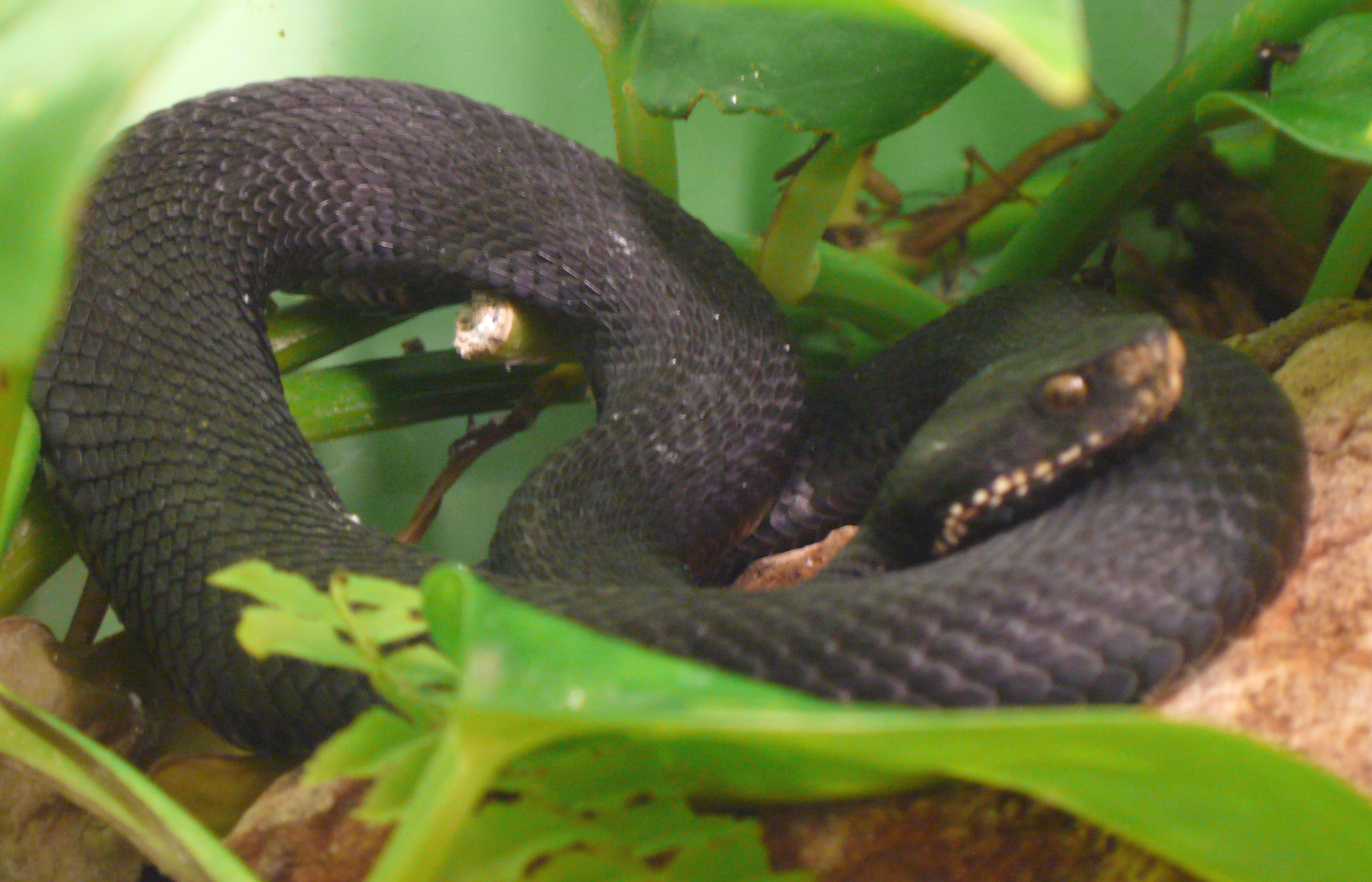 Vipera kaznakovi (Caucasus viper)